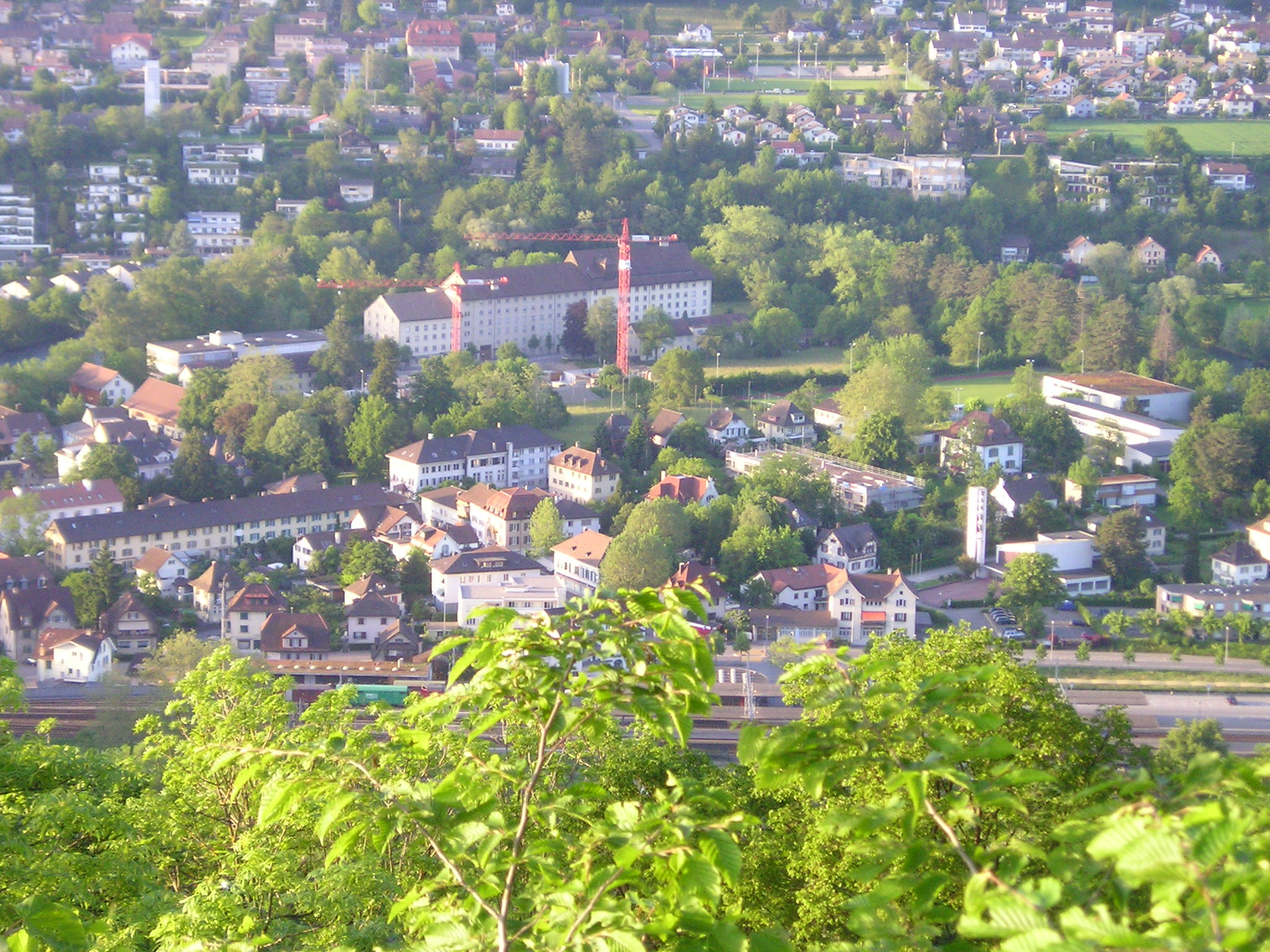 Turgi, in the background Untersiggenthal; AG; CH